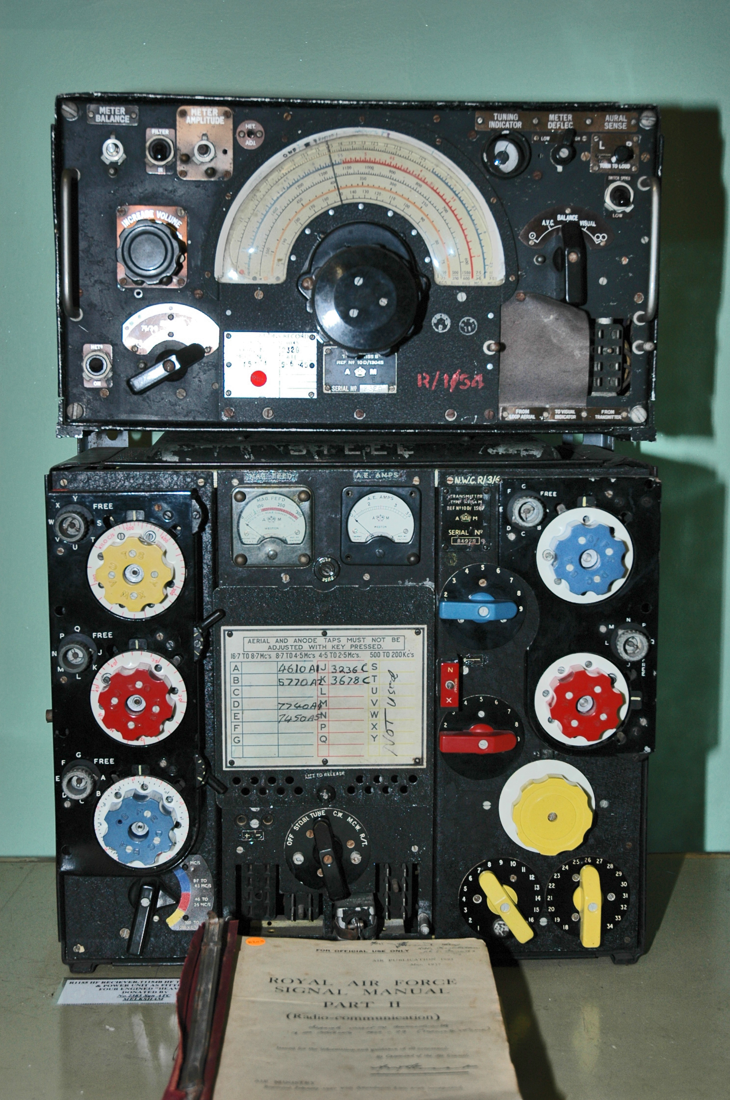 R1154 Receiver & T1155 Transmitter